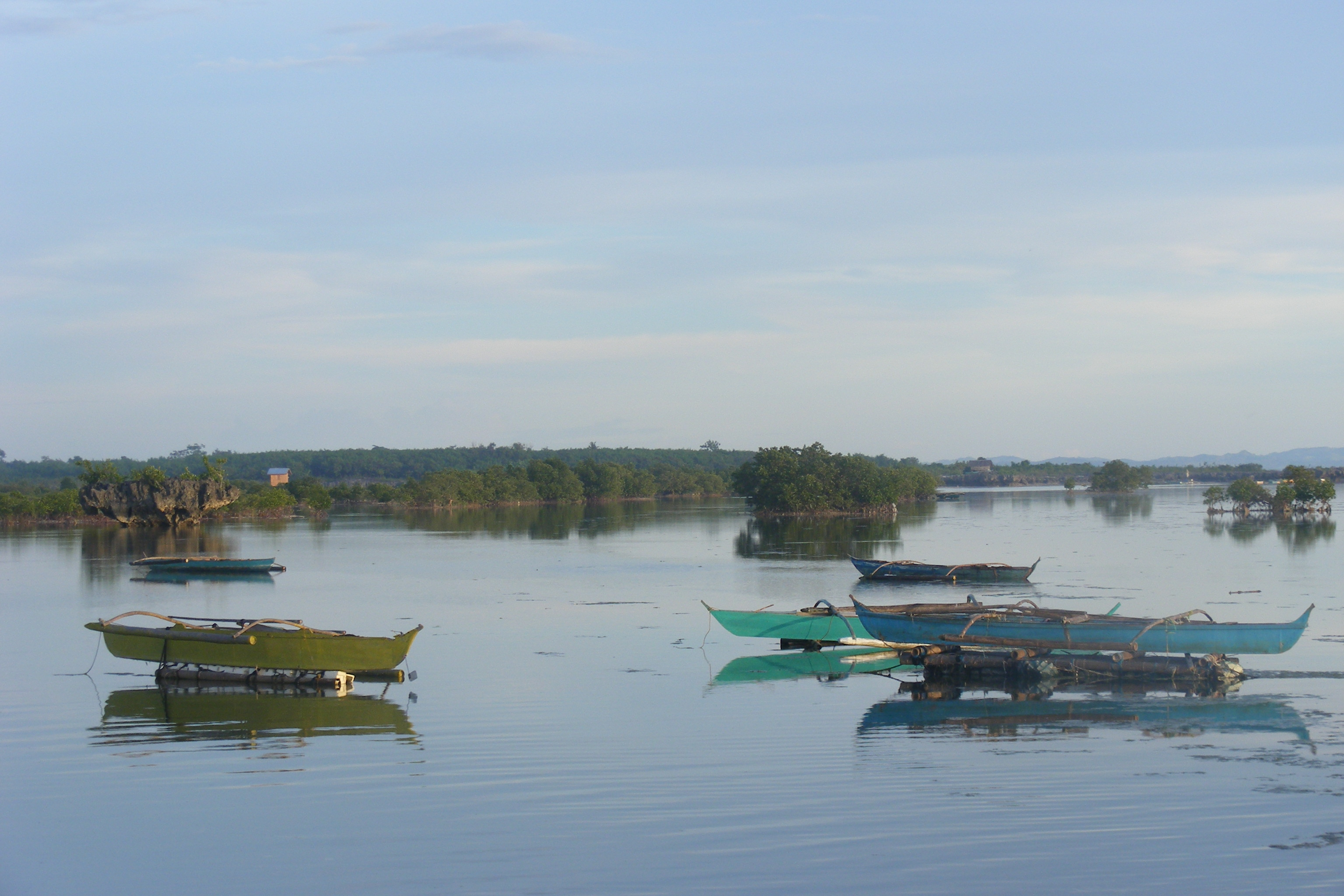 Mangroves at Kamampay Beach Cordova Cebu